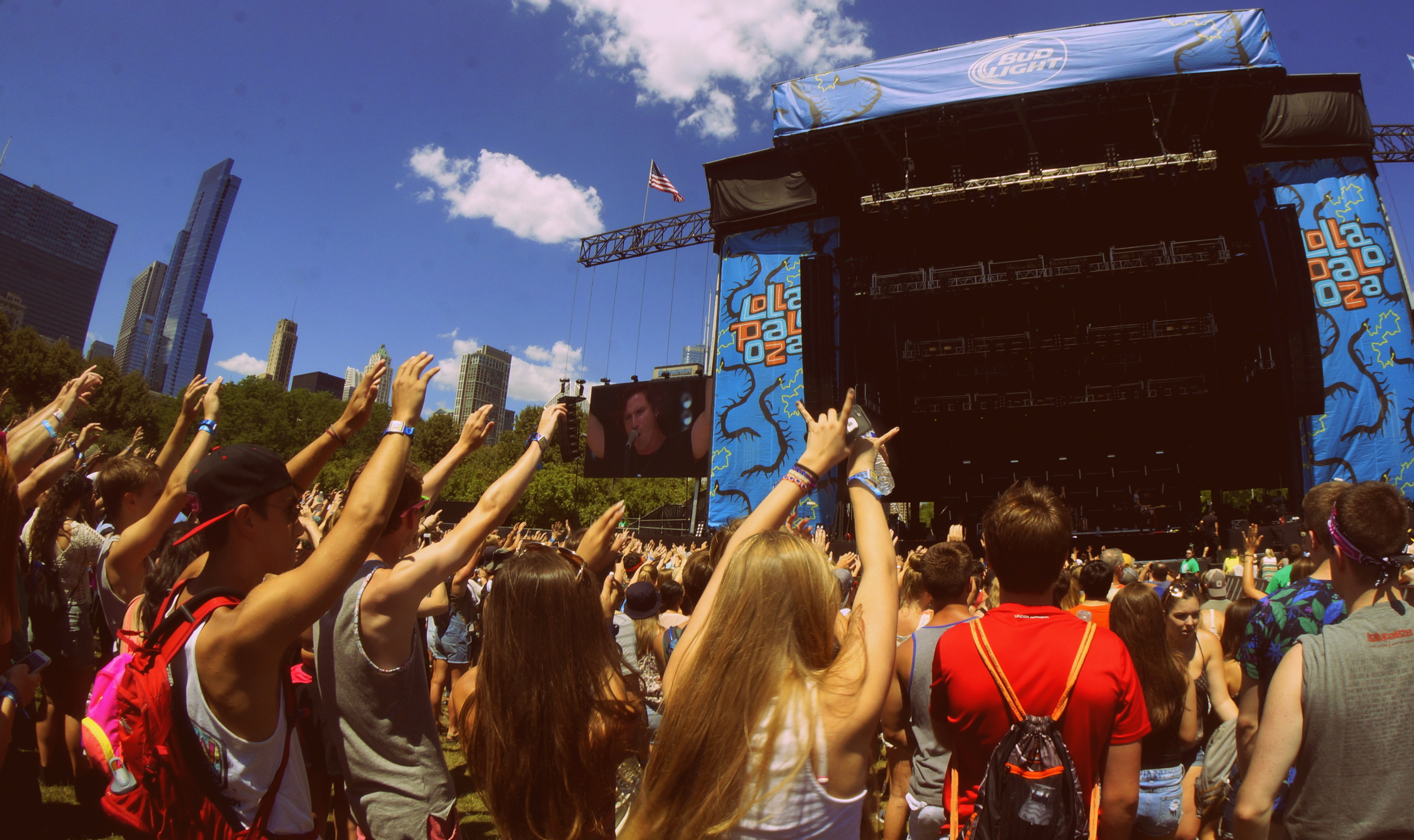 COASTS opening the Bud light Stage at Lollapalooza 2015 More freely usable Lollapalooza 2015 Pictures.